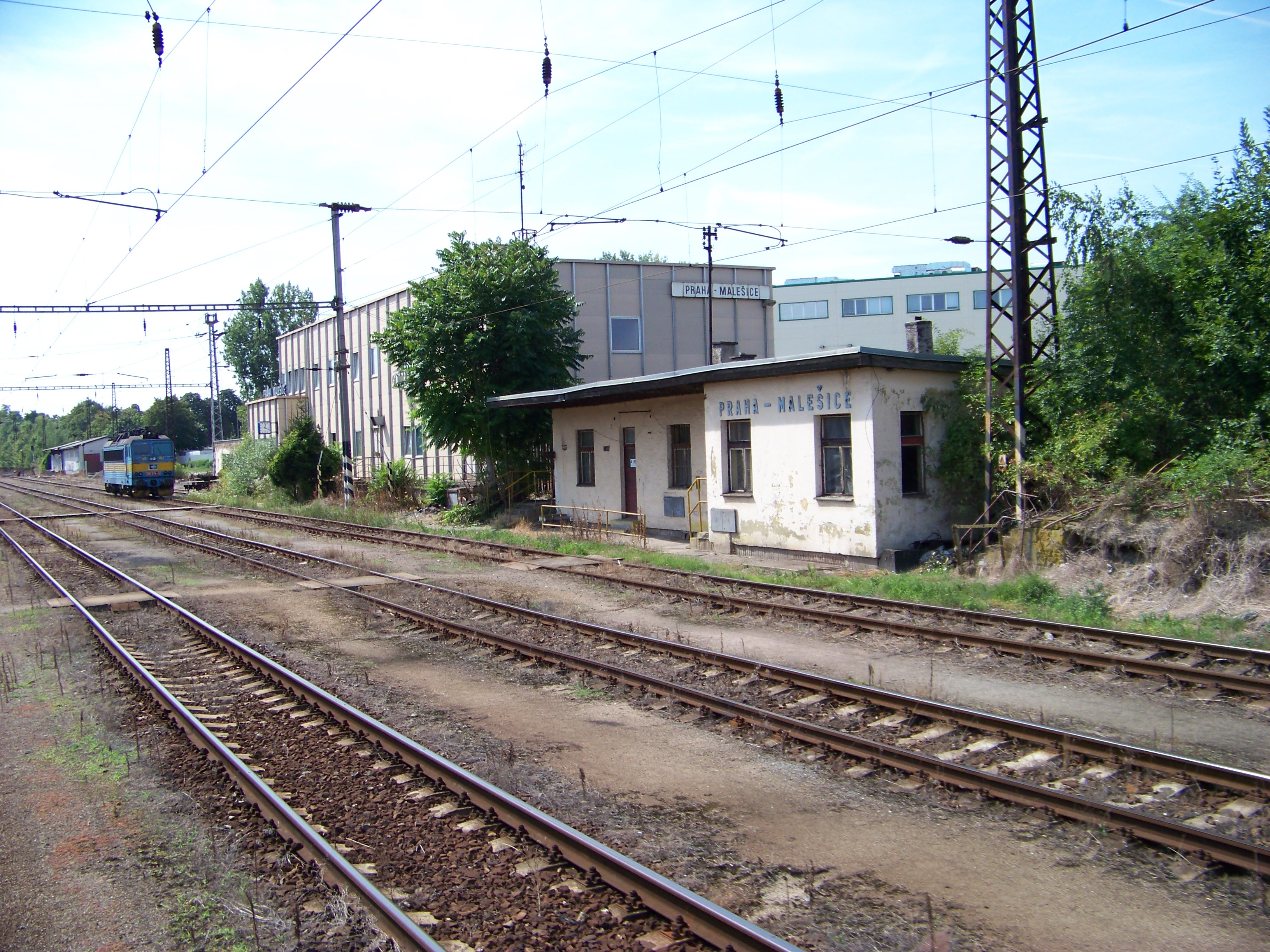 Prague-Malešice. A freight station Praha-Malešice. - OpenStreetMap(Info)